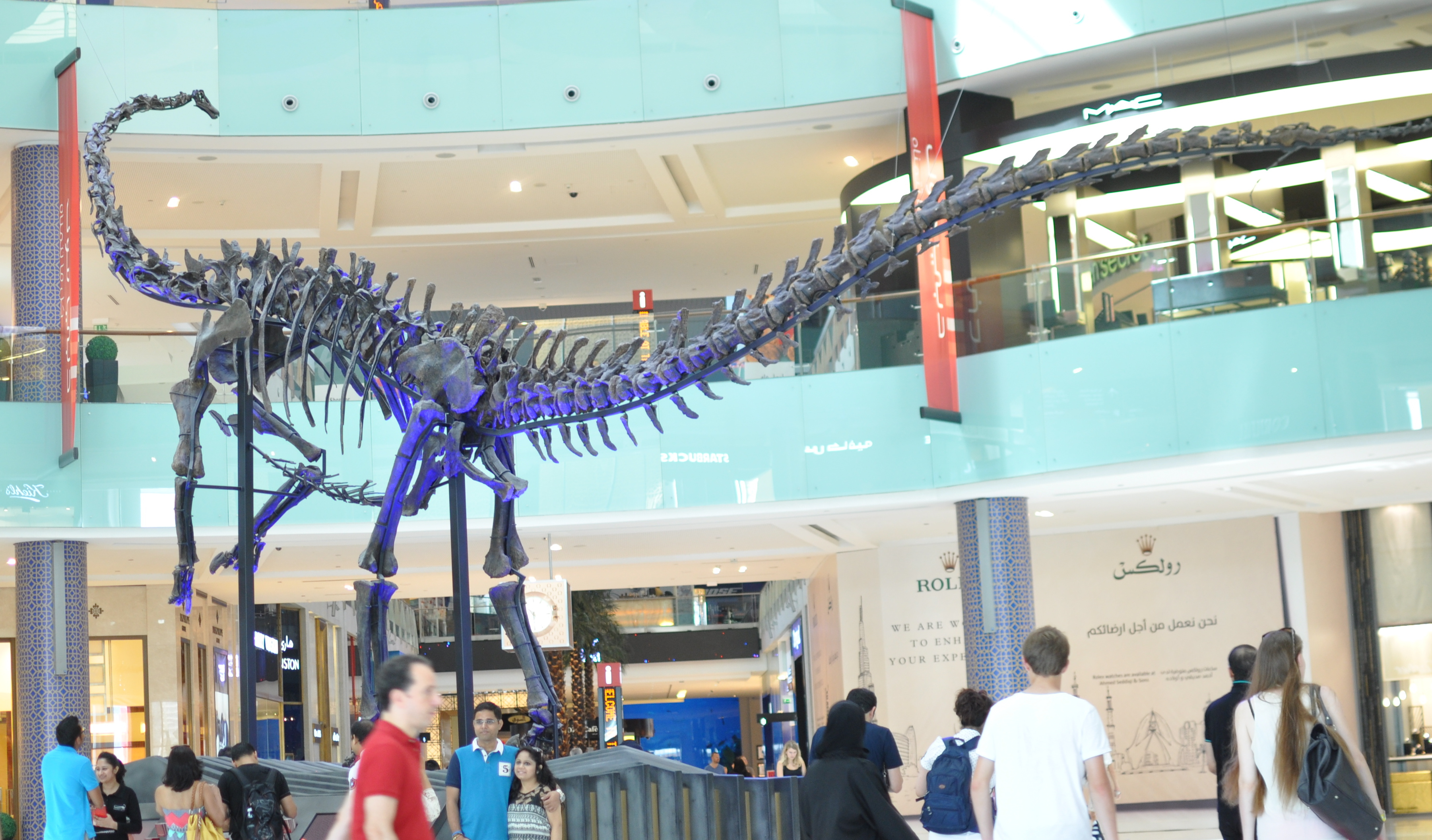 Dubai Mall Dinosaur, Diplodocus sp. (informally assigned to "Amphicoelias brontodiplodocus").